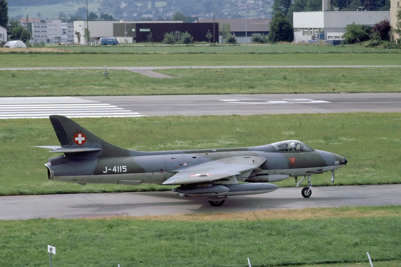 Dübendorf, 24 August 1984. Flugmeisterschaften exercise 1984. Photo taken from an aircraft shelter, outside the base. J-4115 was scrapped.